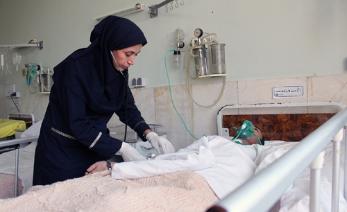 Iranian Nurse - nursing